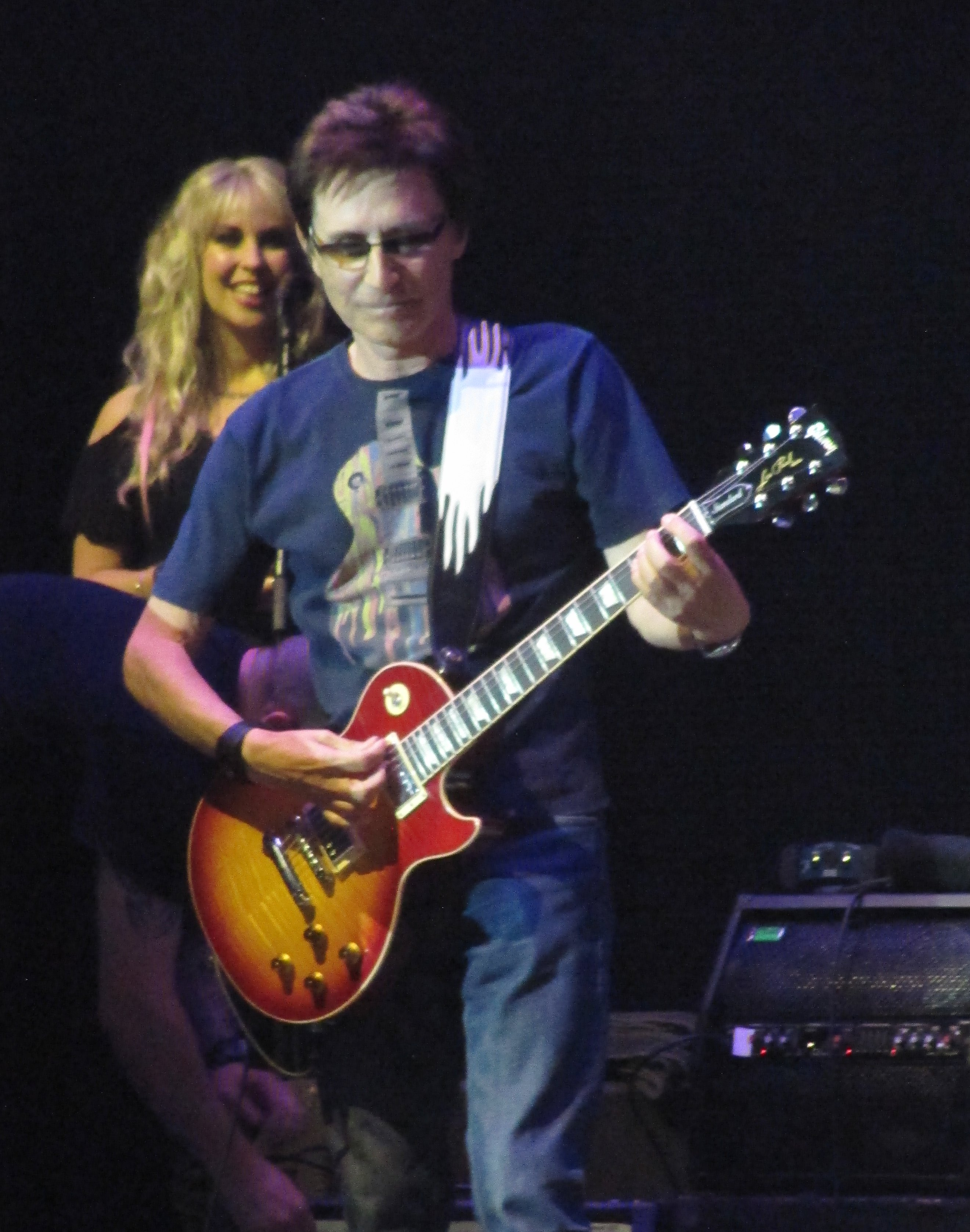 Ritchie Blackmore still cuts it on guitar and with his excellent 2015 re-incarnation of Rainbow, put in a storming set including all the Raindow classics such as All Night Long, I surrender, Since You've Been Gone, Man on the Silver Mountain together with Deep Purple favorites including Burn, Woman from Tokyo, Smoke on the Water and Child in Time. The guest appearance of Russ Ballard on sunburst Gibson was cool, as he wrote most of Rainbow;s hot singles